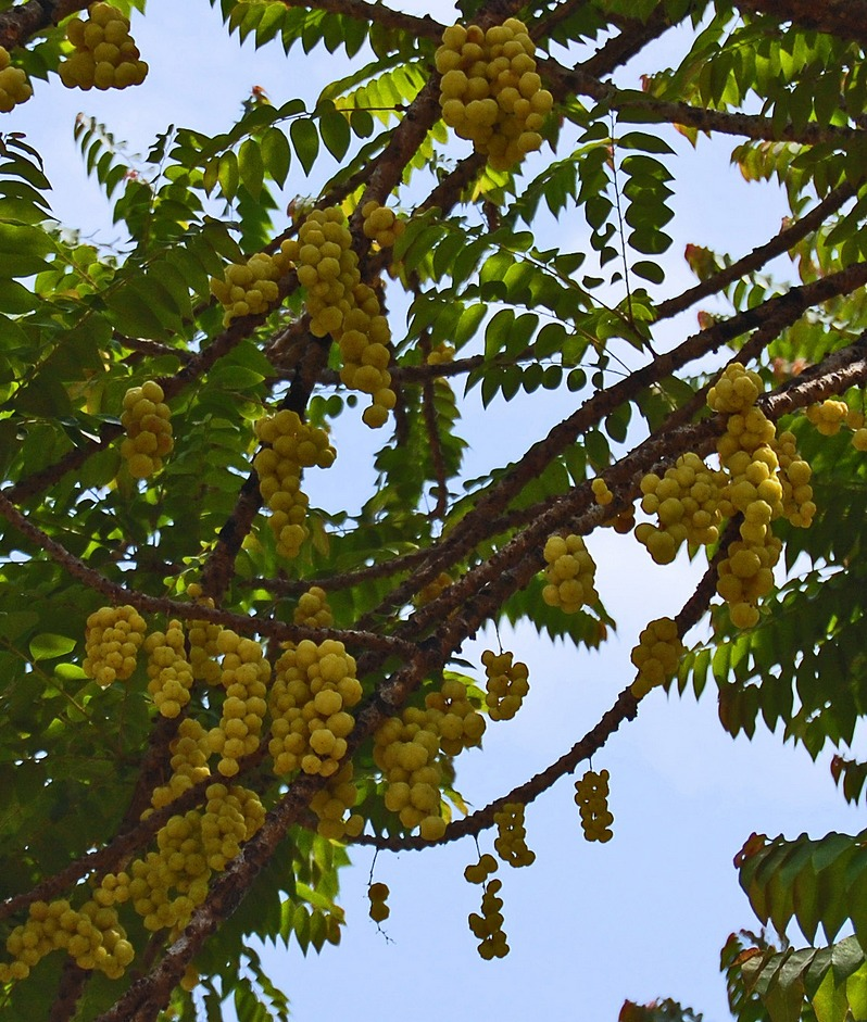 Phyllanthus acidus fruit, near Borobudur, Central Java, Indonesia